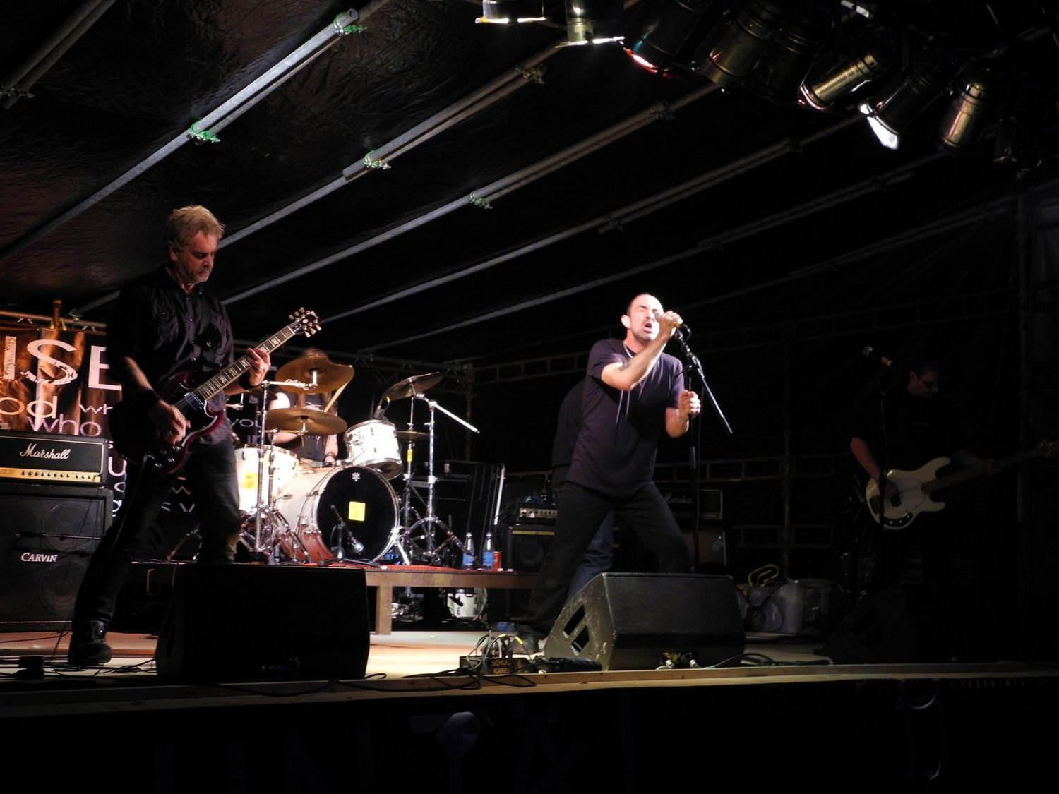 Antisect, Live in Finland, 30/07/2011_Photo by M. Davess